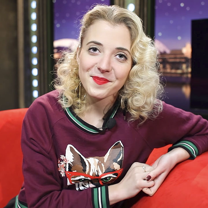 Czech vocalist and actress Anna Slováčková